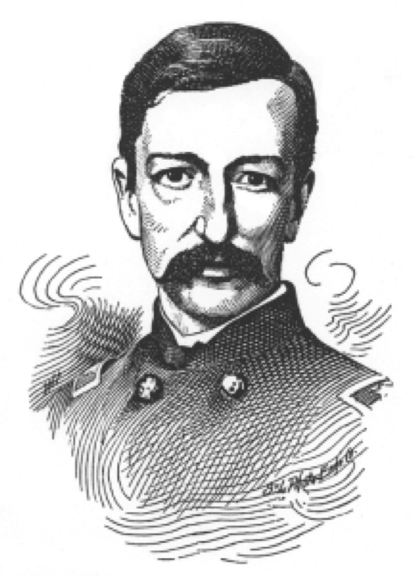 George Boardman Boomer (July 26, 1832 – May 22, 1863) This is a depiction of George B. Boomer that appears in several works in the public domain